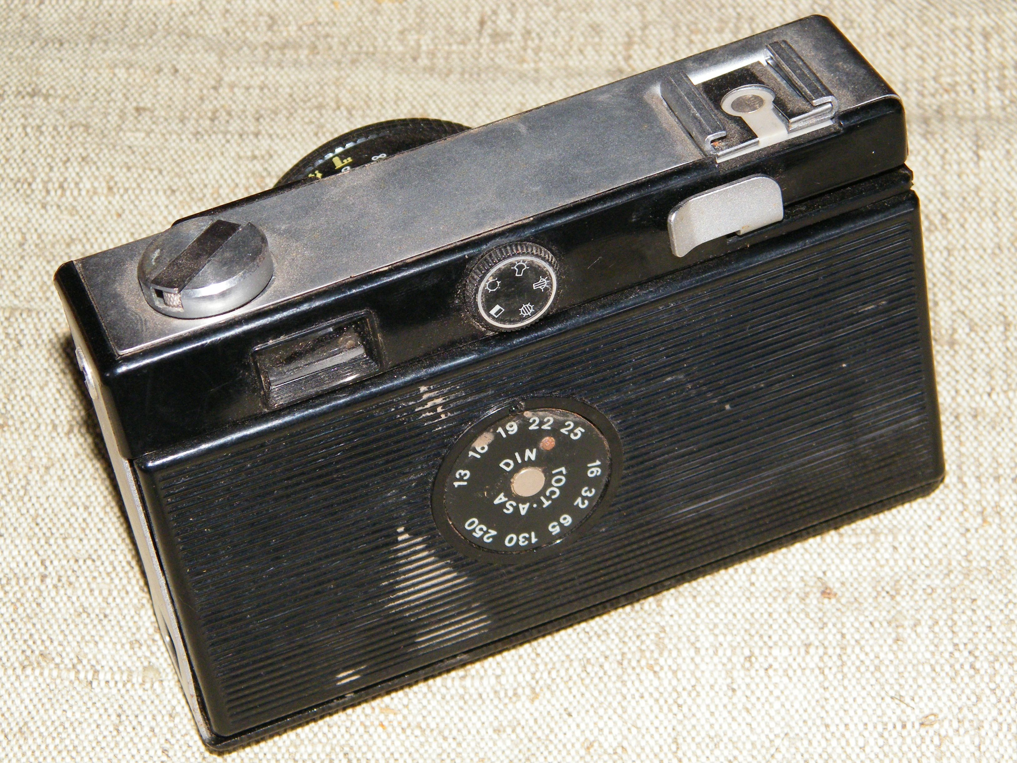 Фотоаппарат Вилия БелОМО зад